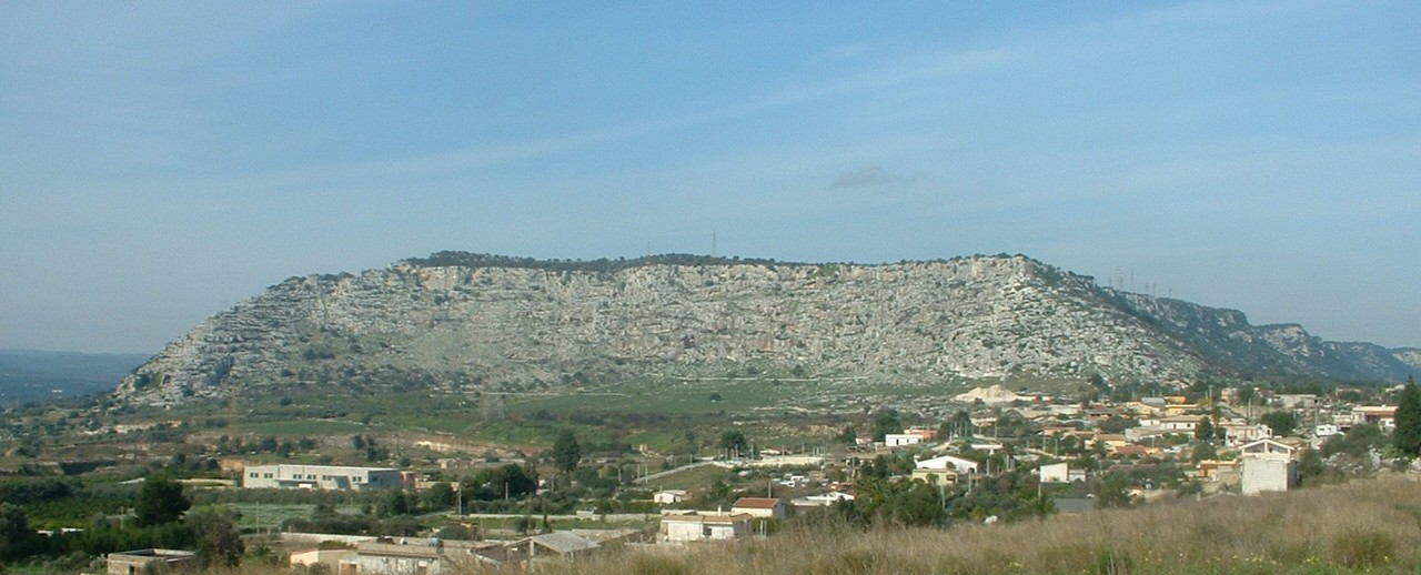 The east side of Climiti Mountains, in province of Syracuse